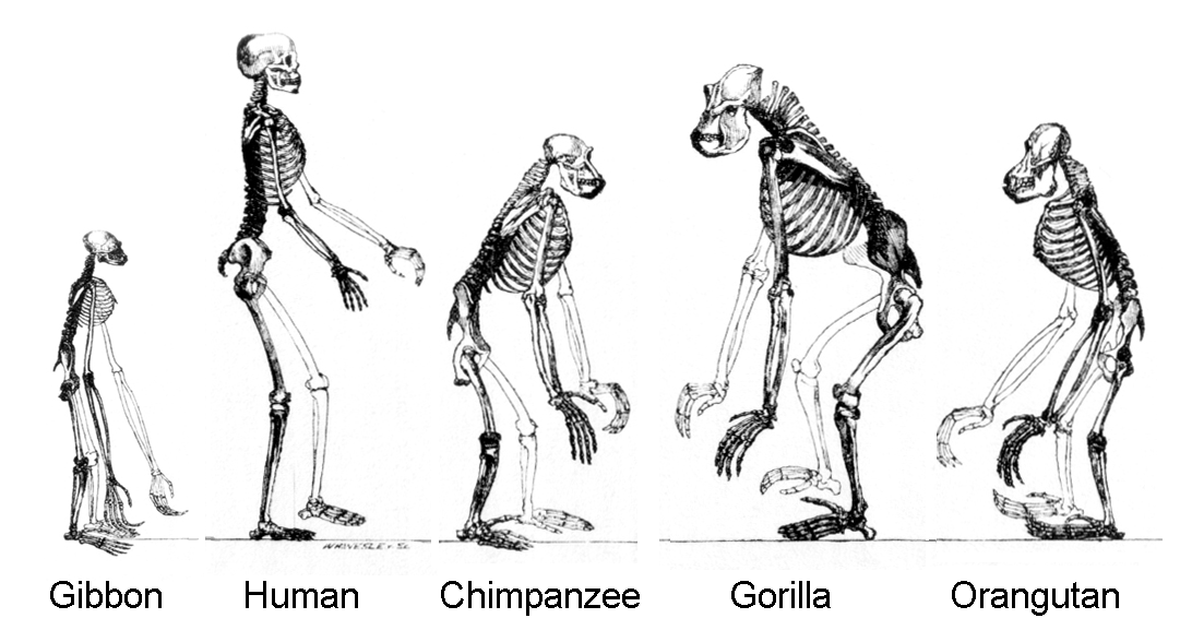 Modification of Image:Huxley - Mans Place in Nature.jpg Gibbon now shown at natural size.